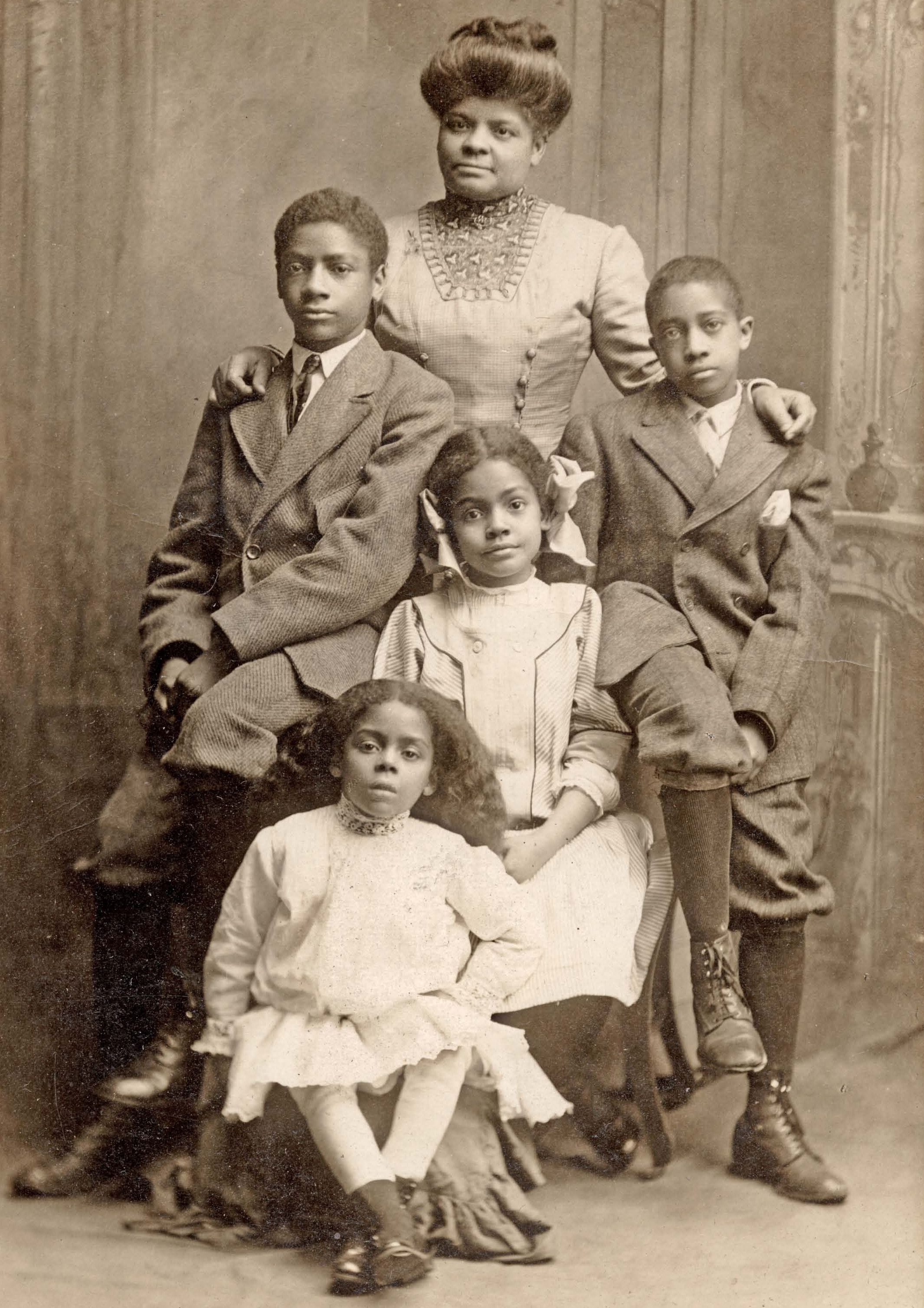 Photo 6: Ida B. Wells-Barnett with her children Charles, Herman, Ida, and Alfreda, 1909, 13.7 x 9.5 cm.